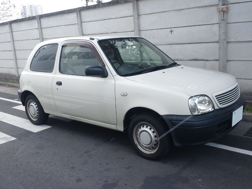 Nissan March K11 "MUJI CAR 1000" front-side